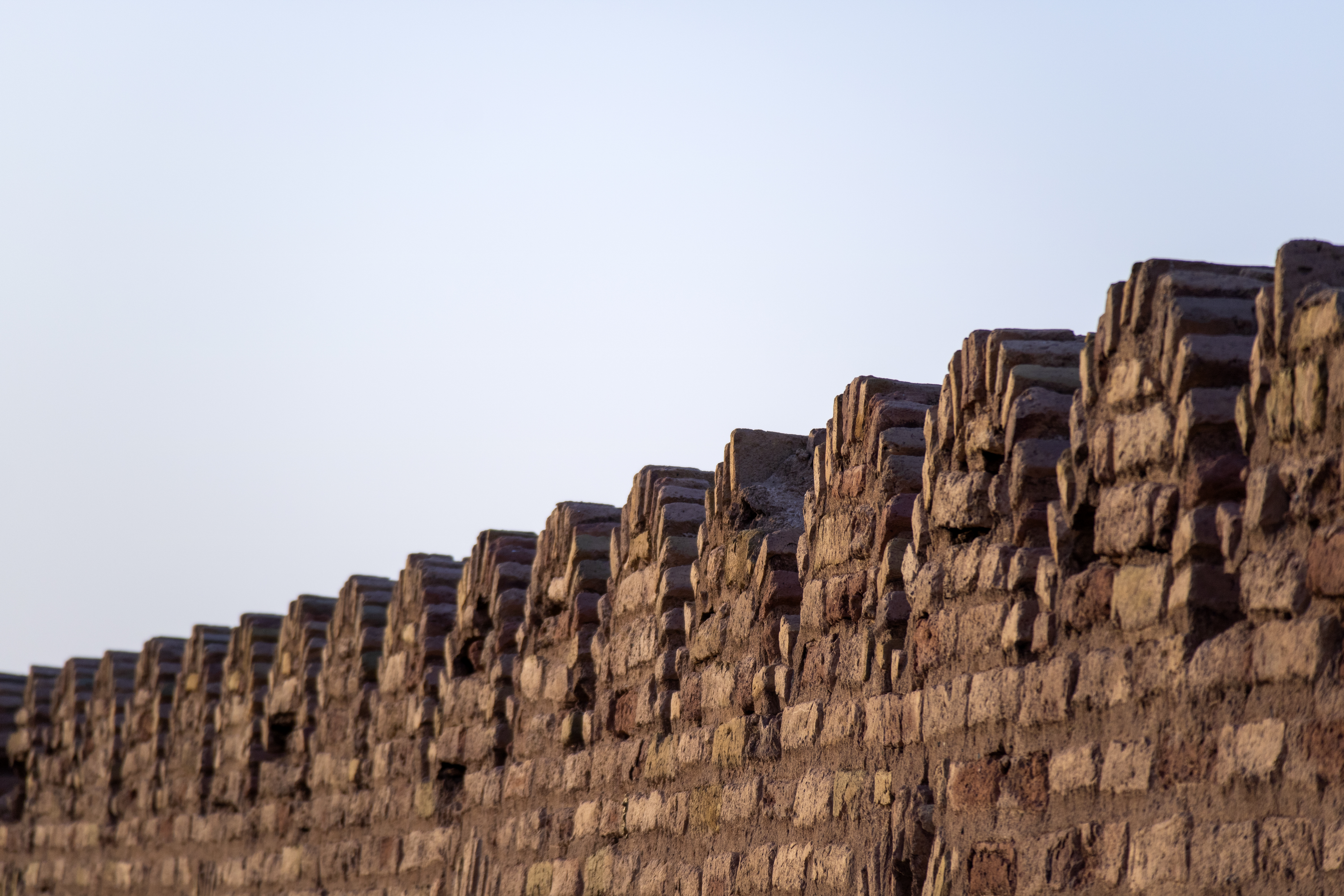 Deir-e Gachin Caravansarai is one of the greatest caravansarais of Iran which is located in the center of Kavir National Park. Its unique qualities is the reason it is called “Mother of Iranian Caravansarais”. It is located in the Central District of Qom County, 80 kilometers north-east of Qom (60 kilometers into Garmsar Freeway) and 35 kilometers south-west of Varamin. (Photo by: Mostafa Meraji, wiki loves monuments 2018)